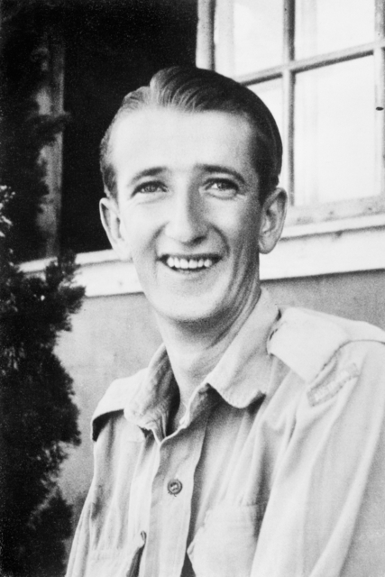 Portrait of 2/400186 Private (Pte) Horace William (Slim) Madden GC, 3rd Battalion, The Royal Australian Regiment (3RAR), of Cronulla, NSW. Madden served in World War II during the New Guinea and Bougainville campaigns, and during the Korean War. Captured by Chinese Communists in 1951, he was awarded the George Cross for his heroic conduct in defying his captors as a Prisoner of War. He died due to his poor treatment by his captors which led to malnutrition and his eventual death in late November/early December 1951. Photograph taken in 1947.